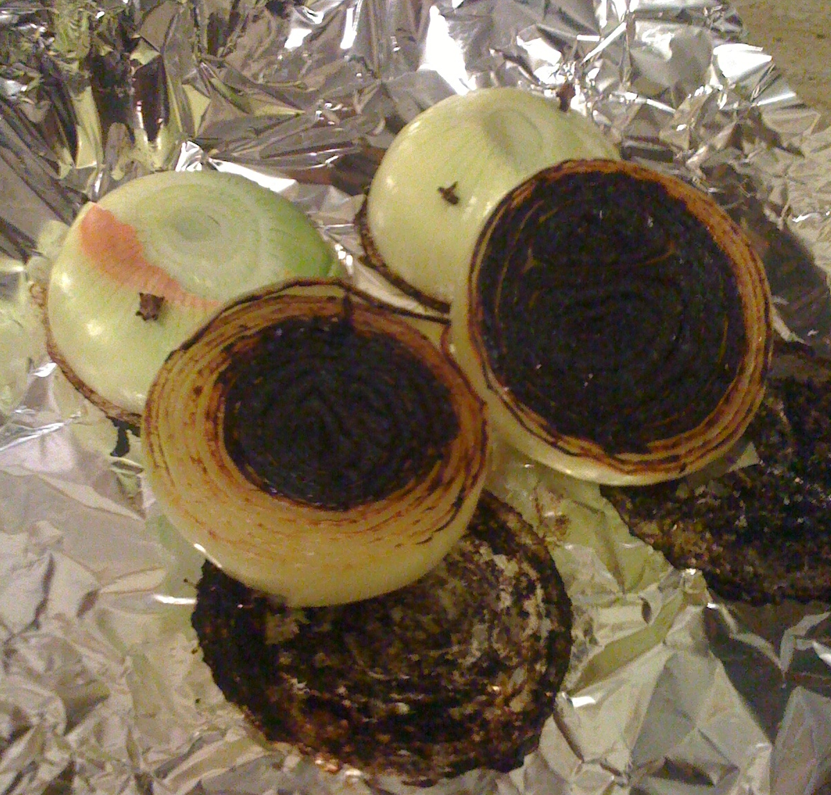 Result or onions burned in a frying pan protected by aluminium foil to cook a Pot-au-feu